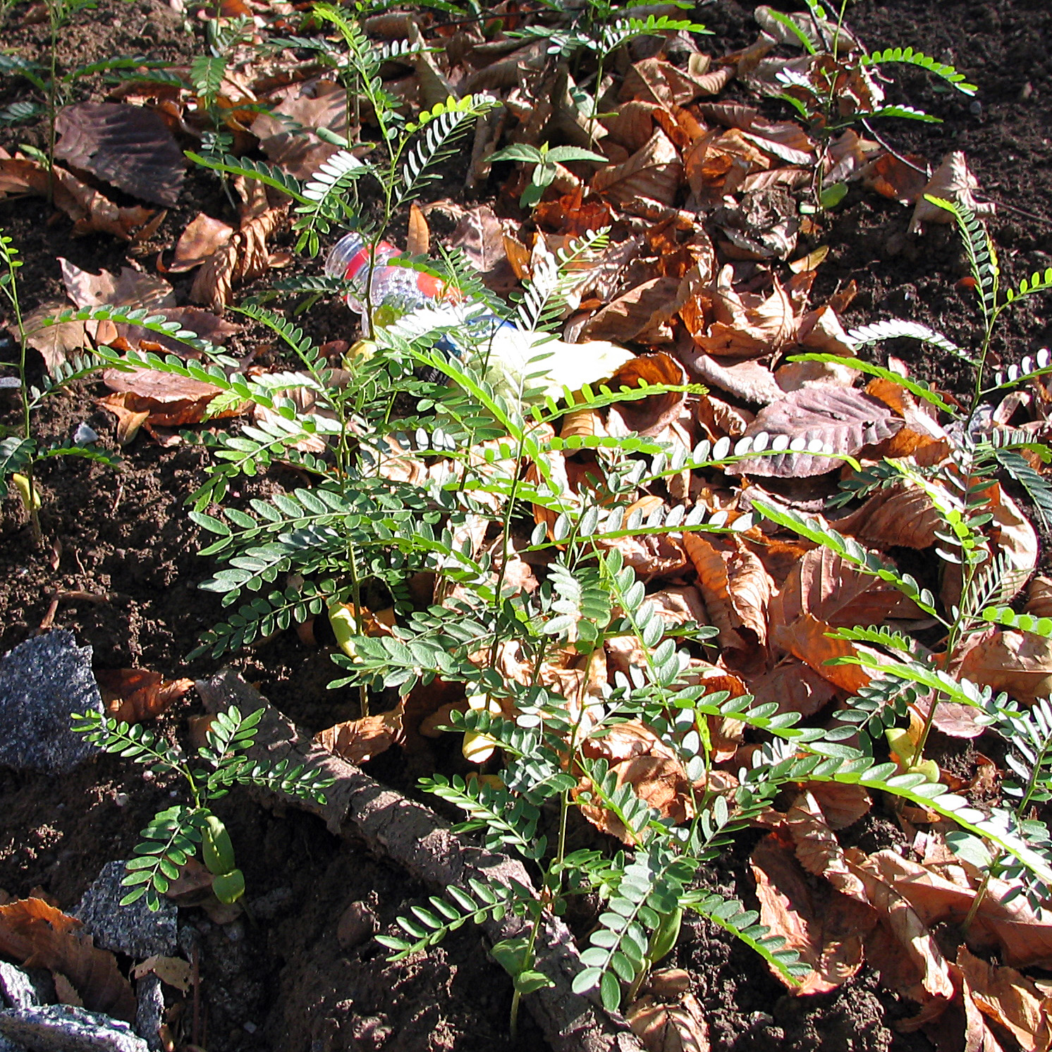 Gleditsia triacanthos seedlings in Voždovački park, Belgrade